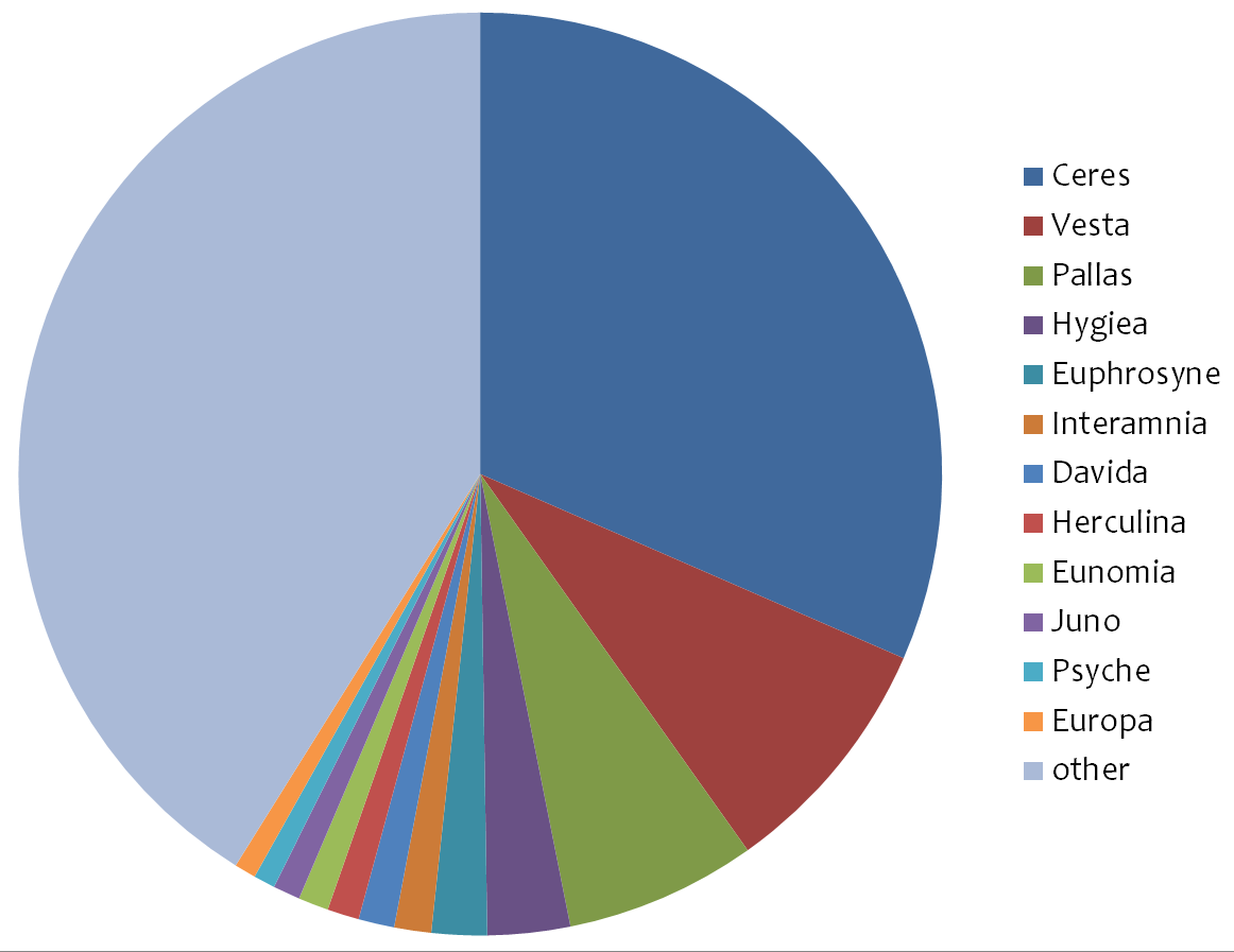 Pie chart of the masses of the twelve most-massive asteroids per Baer (2010), relative to the mass of the main asteroid belt (Mbelt 15.0±1.0 × 10-10 M☉ or 3.0×1021 kg).